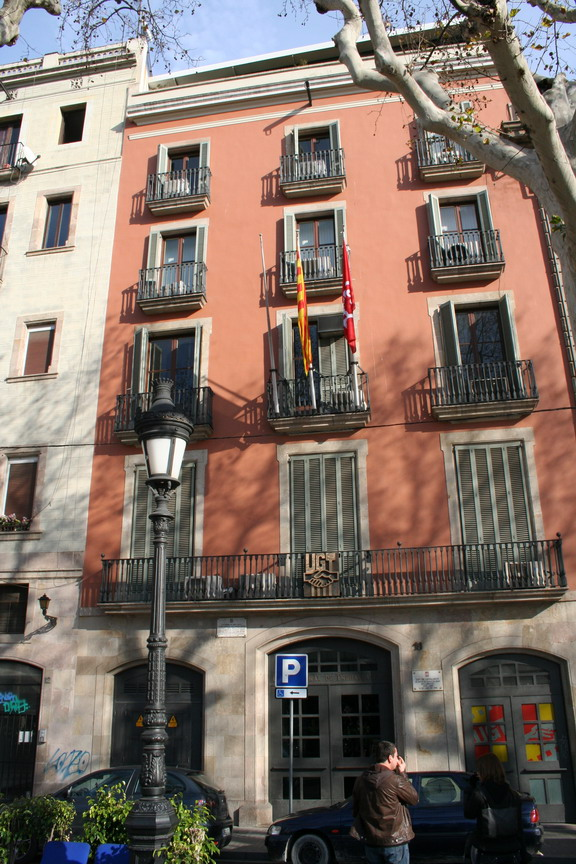 Former CADCI headquarters in Barcelona, place of fighthing in october 6th 1934. Nowadays, UGT offices in Barcelona.